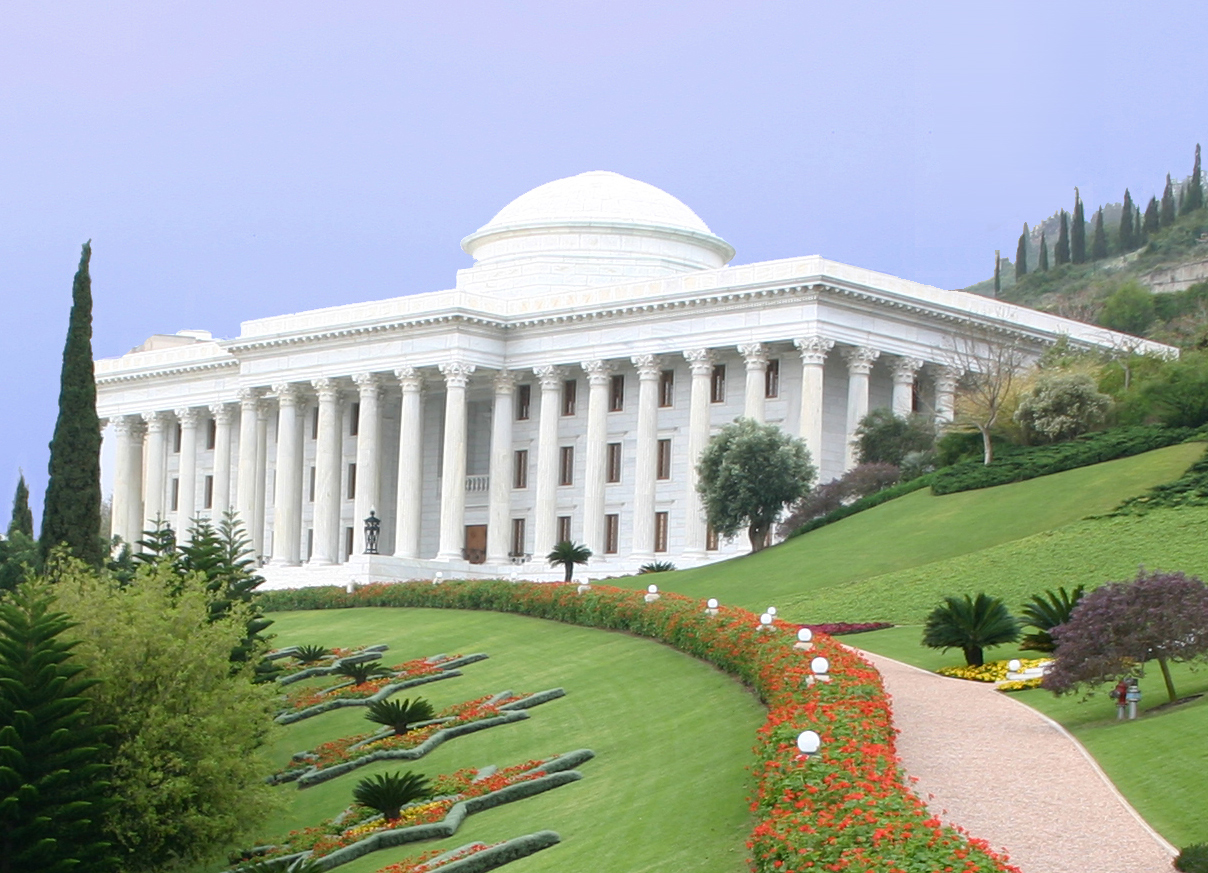 The Bahá'í Arc from the International Archives building